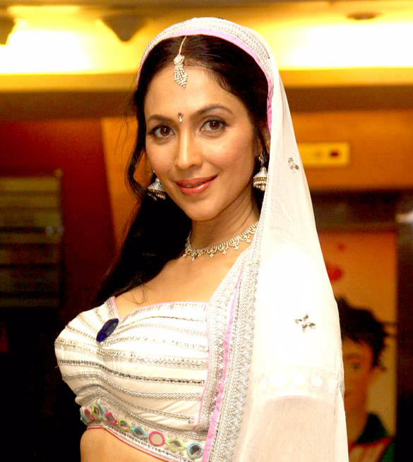 Kalpana Pandit at the Premiere of 'Janleva 555'